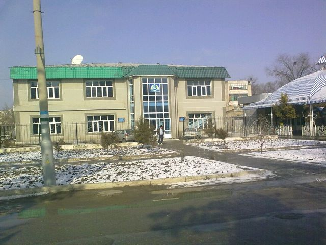 Nurabad Samarqand YuRU